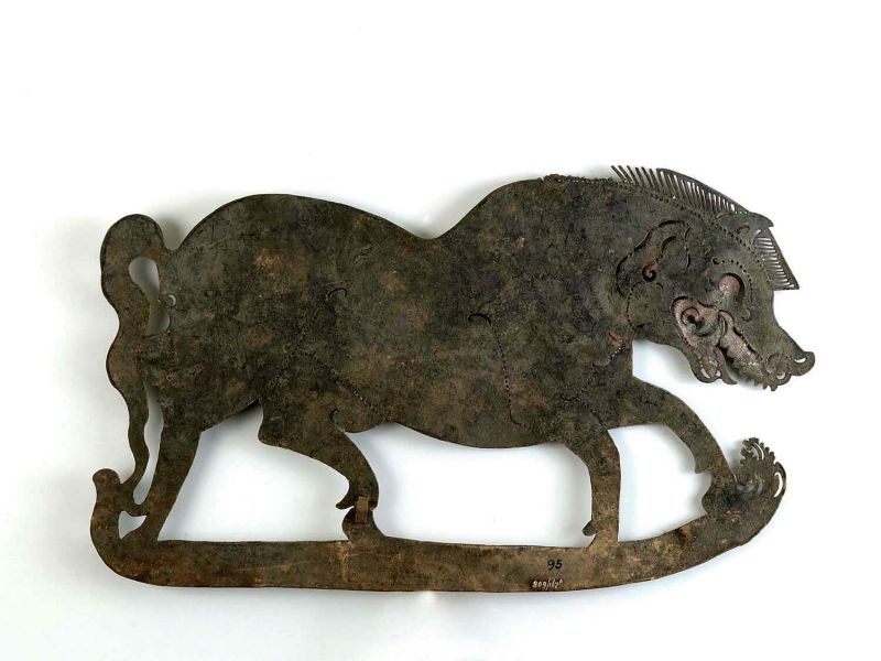 Wayang kulit figure, representing a wild boar, babi